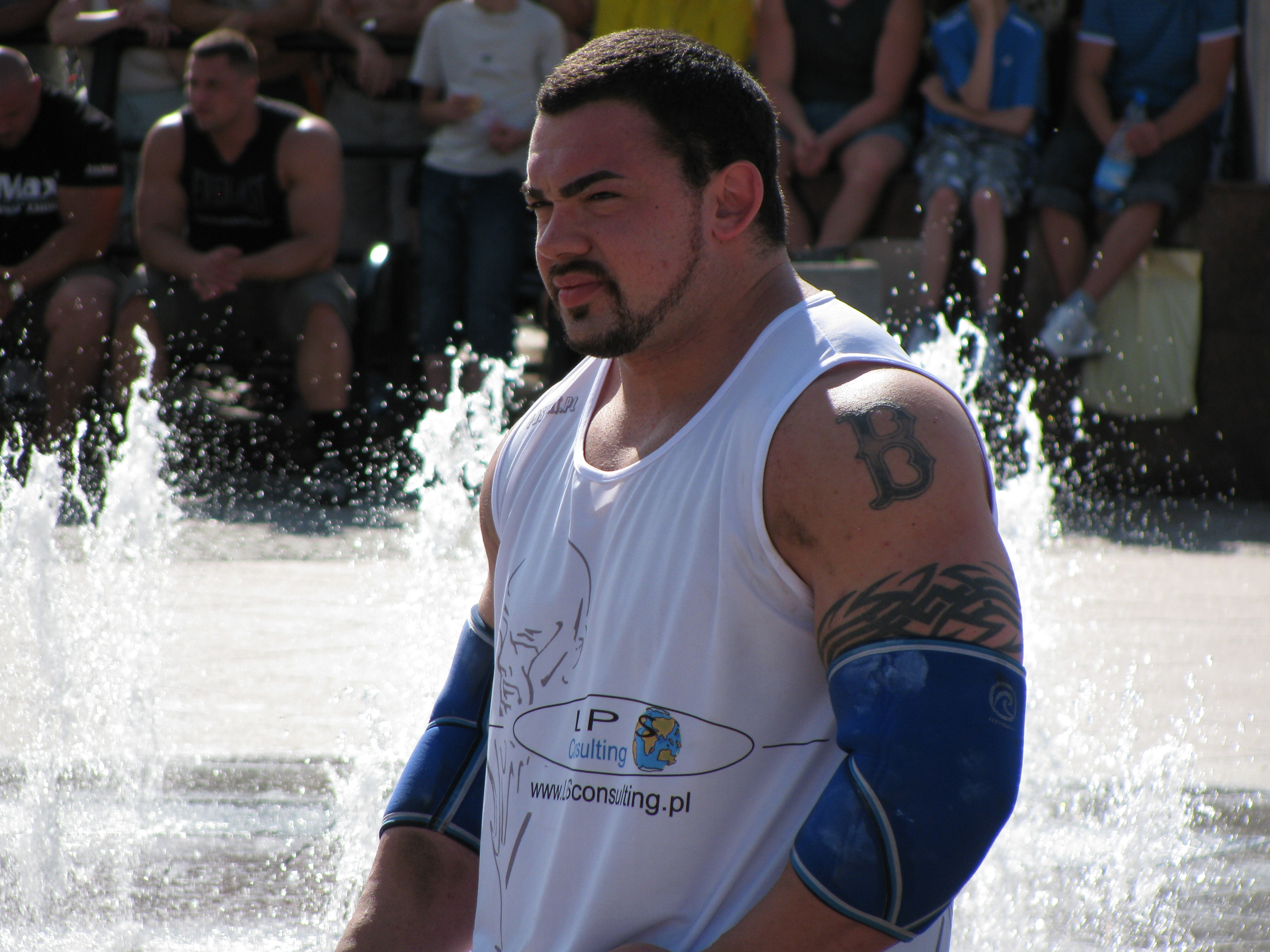 Kevin Nee - a strength athlete from the United States